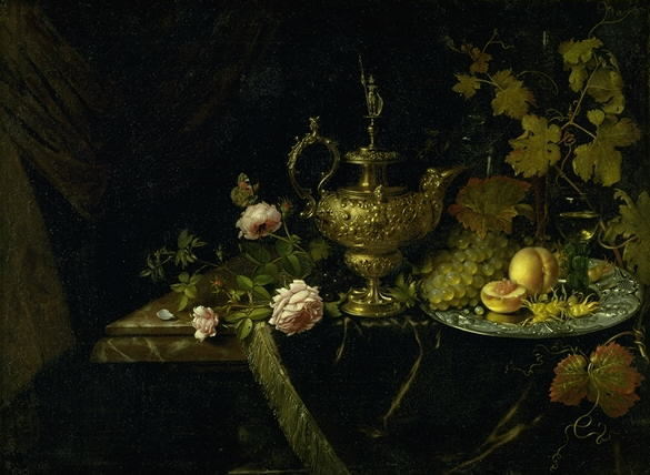 Pieter Nason Dutch, 1612 - 1688-1690 Still Life, 1675 TECHNIQUE Oil on canvas DIMENSIONS 71 x 97 cm ACQUISITION Køb, Købt i Holland (som Simons) - 1759 REFERENCE KMSsp767